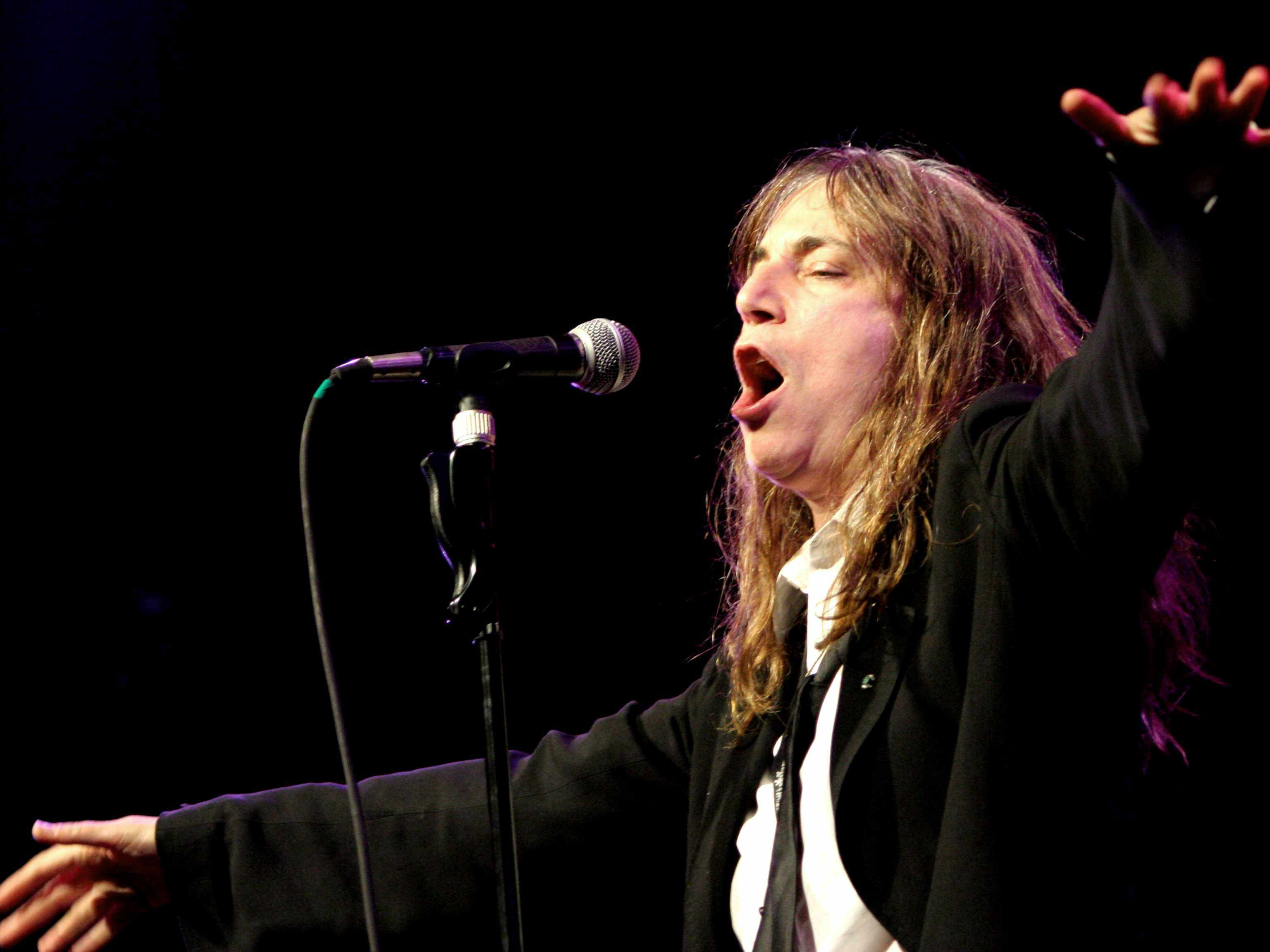 Patti Smith performing at TIM Festival, Marina da Glória, Rio de Janeiro, Brazil.